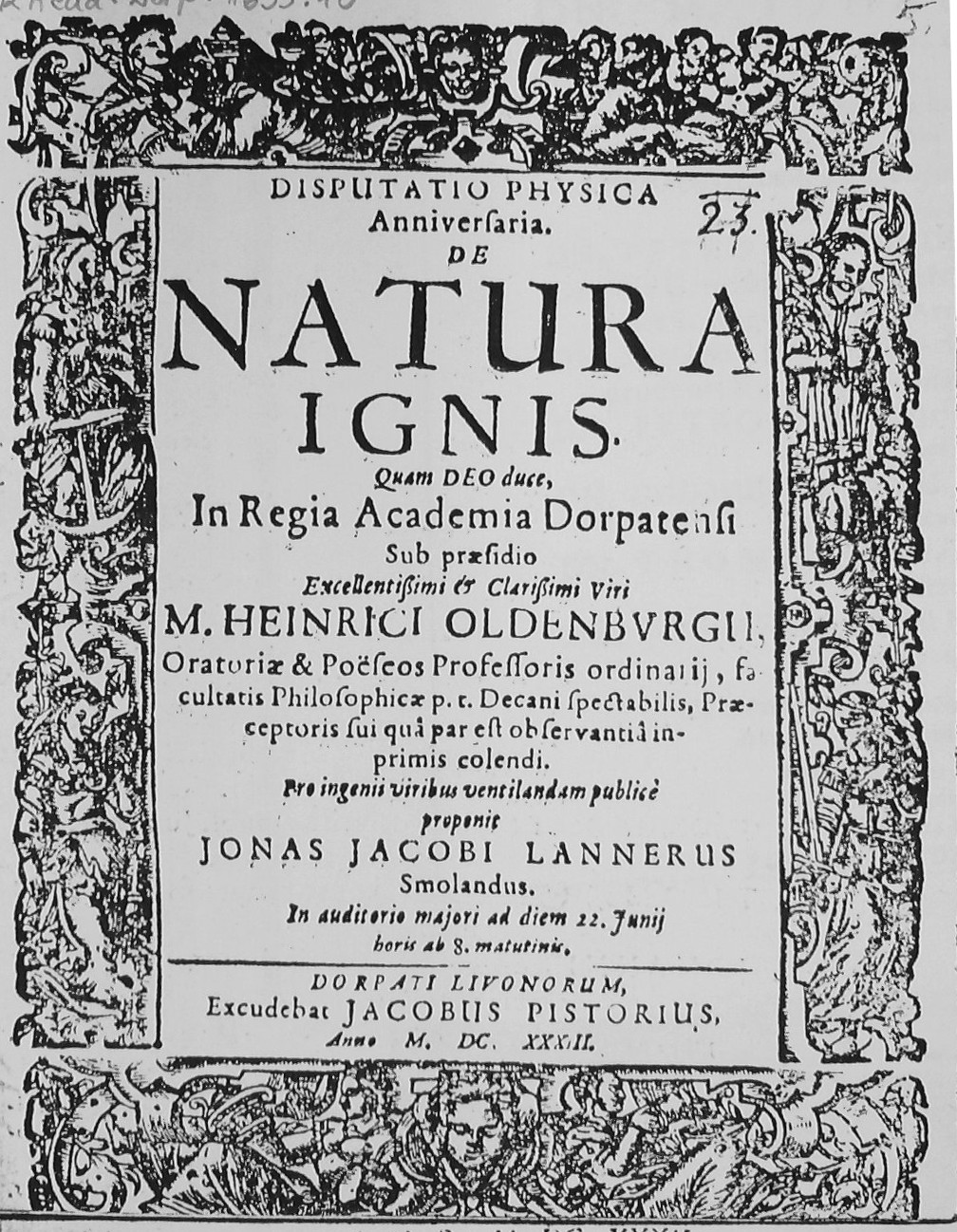 Title page of disputation by Jonas Lannerus and Heinrich Oldenburg, Disputatio Physica Anniversaria. De Natura Ignis. Quam ...in Regia Academia Dorpatensi Sub Praesidio ... Heinrici Oldenburgii ... Ventilandam Publice Proponit Jonas Jacobi Lannerus, Smolandus. ... Ad Diem 22. Junij (Dorpat, 1633).